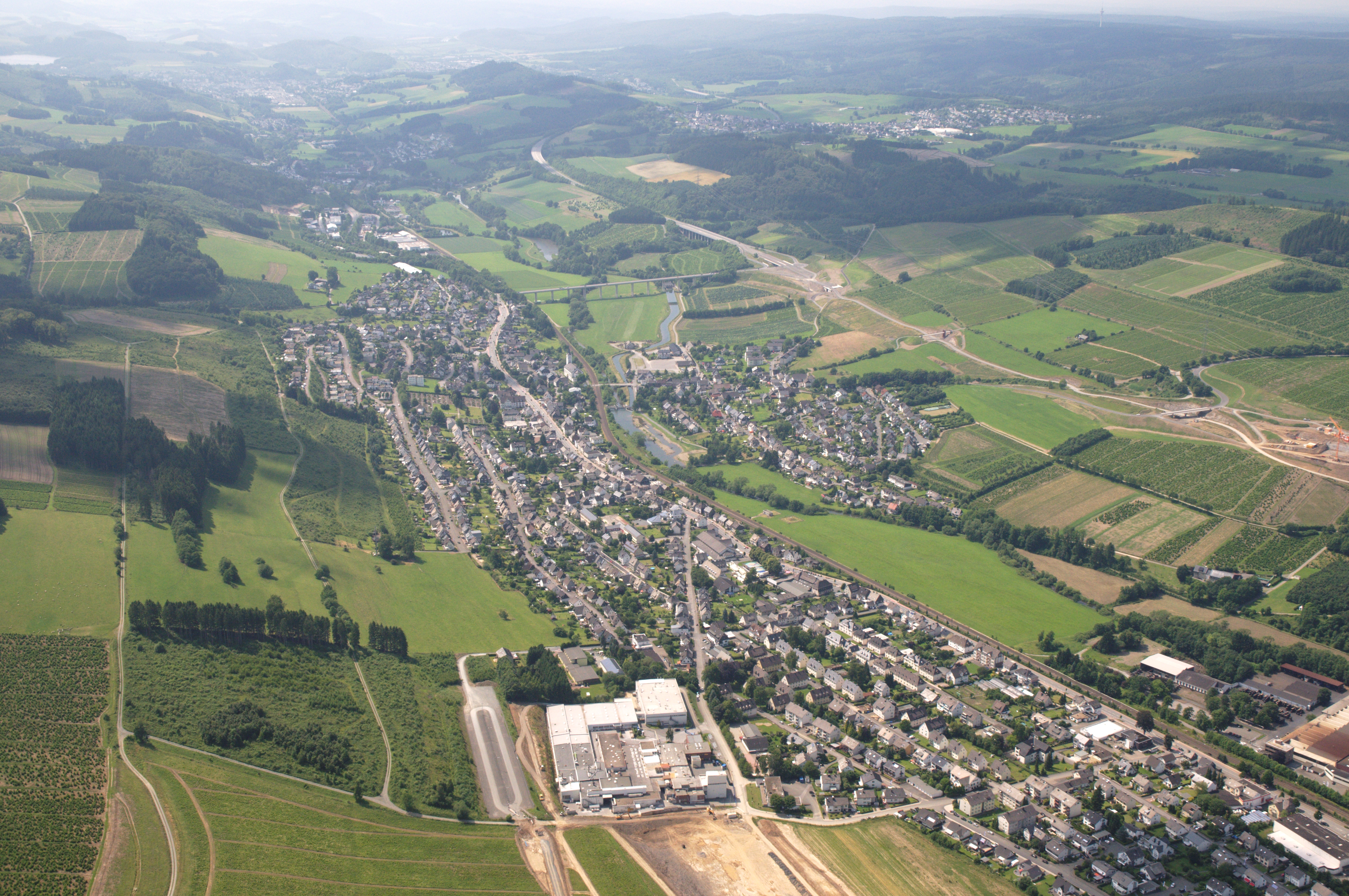 Fotoflug Sauerland-Ost: Bestwig, Ruhrtal; Ende der Bundesautobahn 46; Blickrichtung Westen The making of this document was supported by the Community-Budget of Wikimedia Germany.